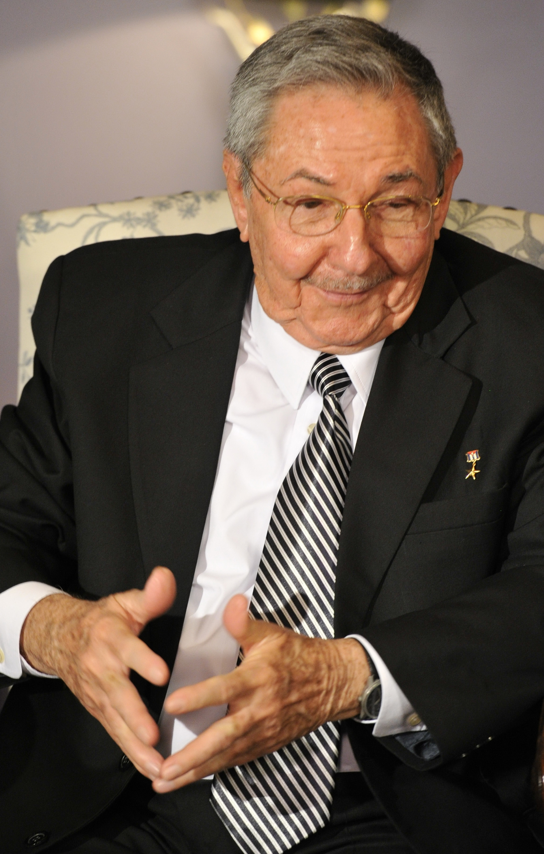 President of the Council of State and the Council of Ministers of Cuba Raúl Castro — at a meeting with Russian Prime Minister Dmitry Medvedev.